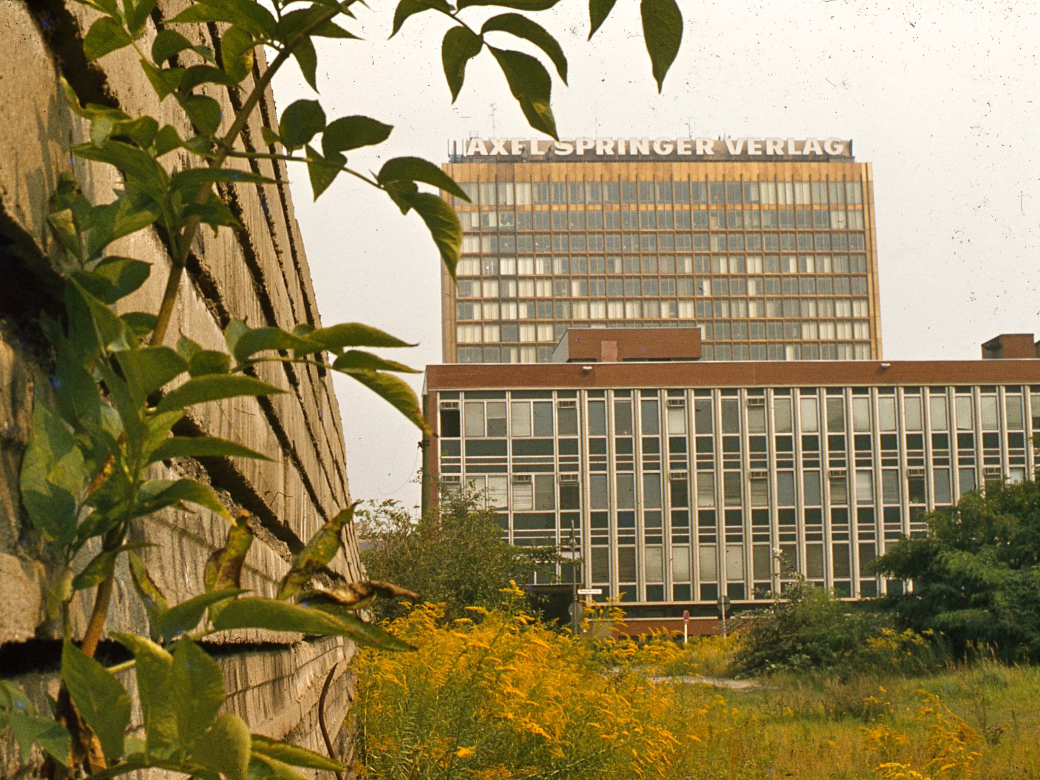 The Axel Springer Building in Berlin and the Berlin Wall, showing proximity of the two. Other information Photo by George Garrigues.